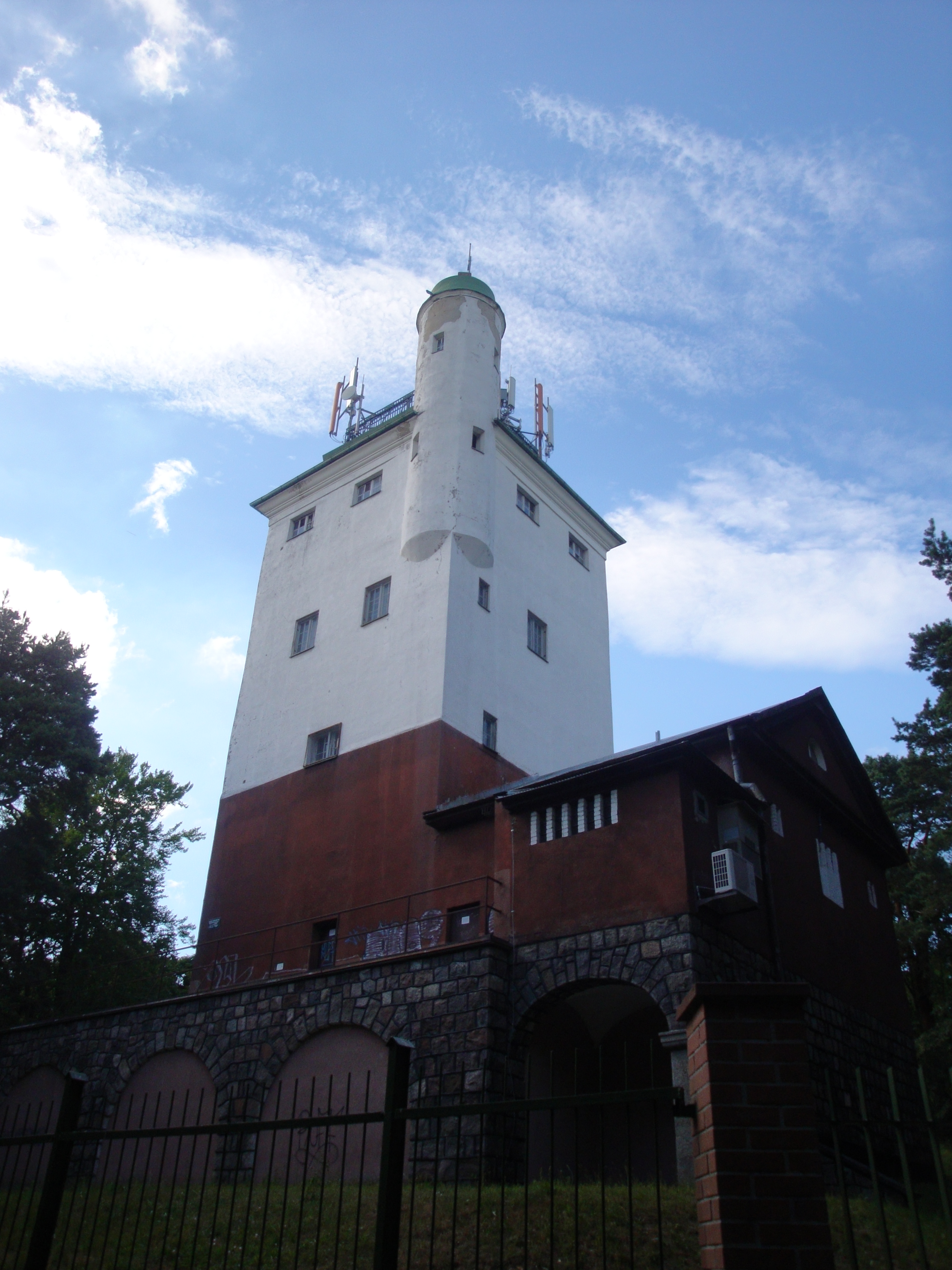 Water tower in Lębork, Poland